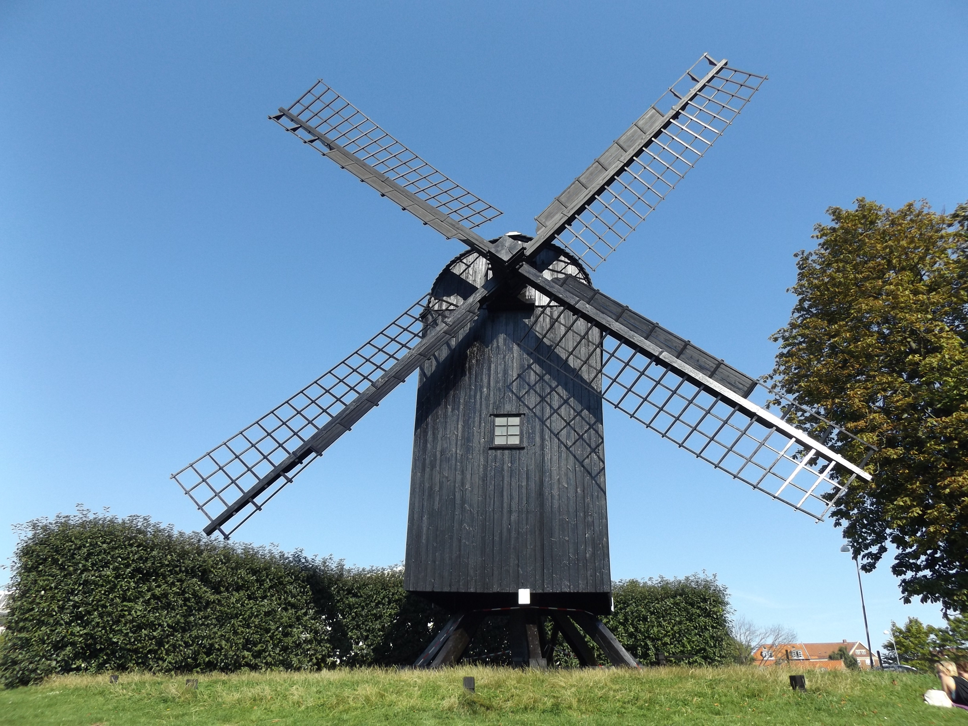 Tuesbøl Mølle, Den Gamle by, Århus